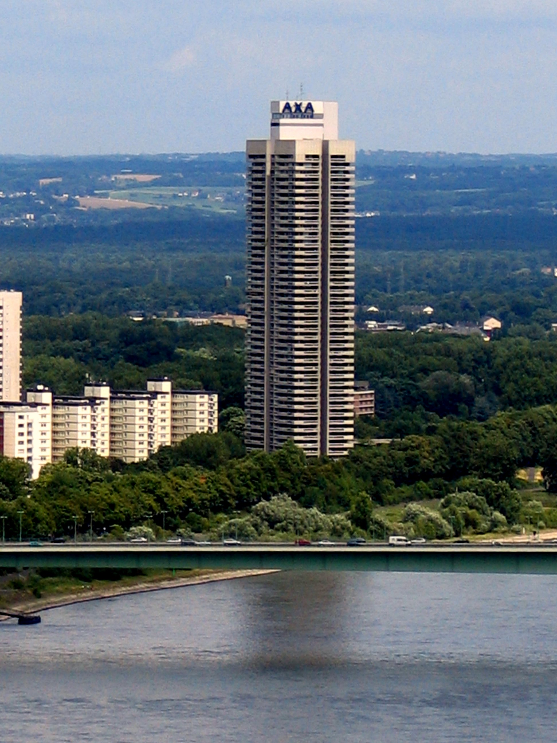 Colonia Building, Cologne